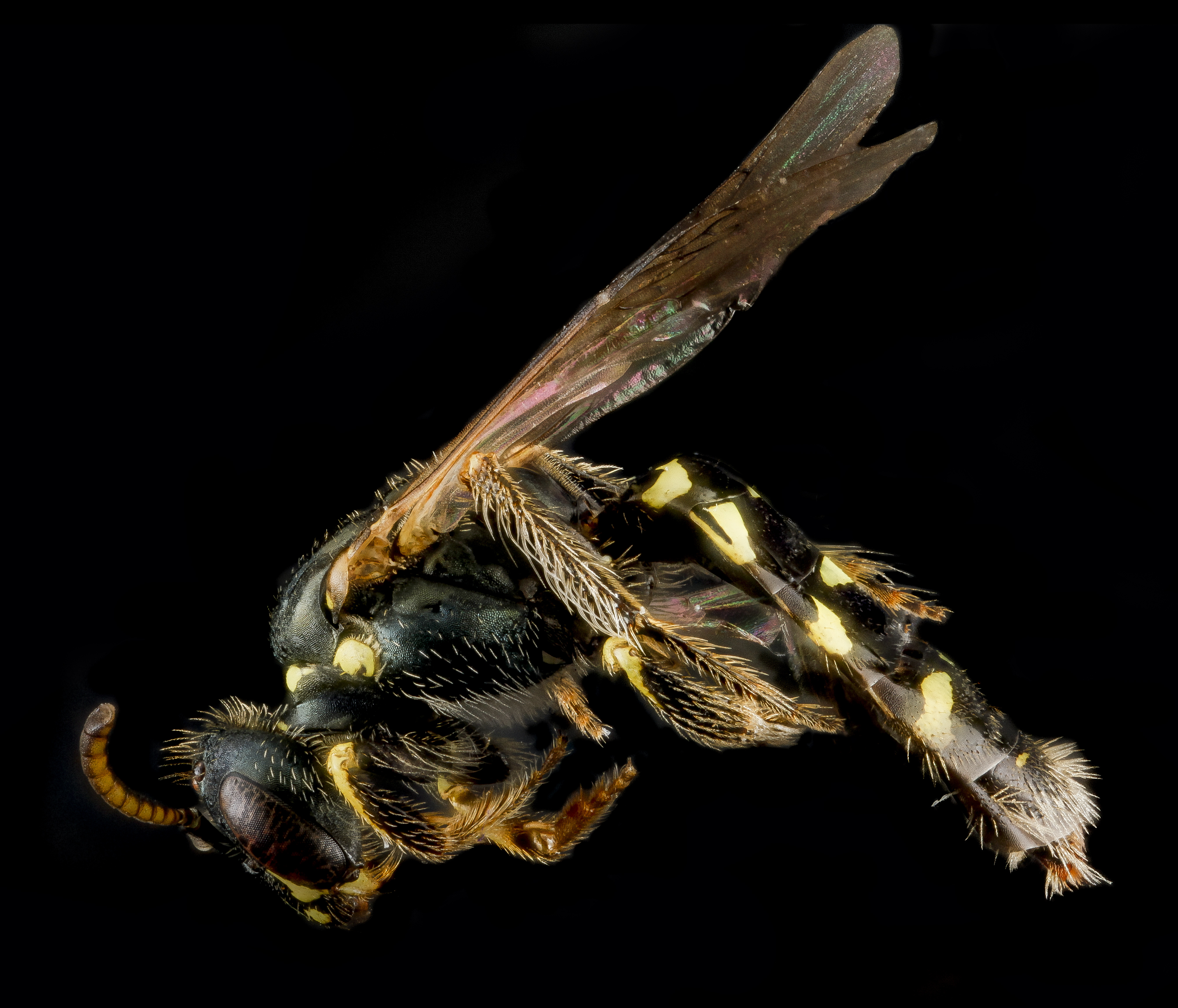 A tiny sand loving Perdita from Maryland